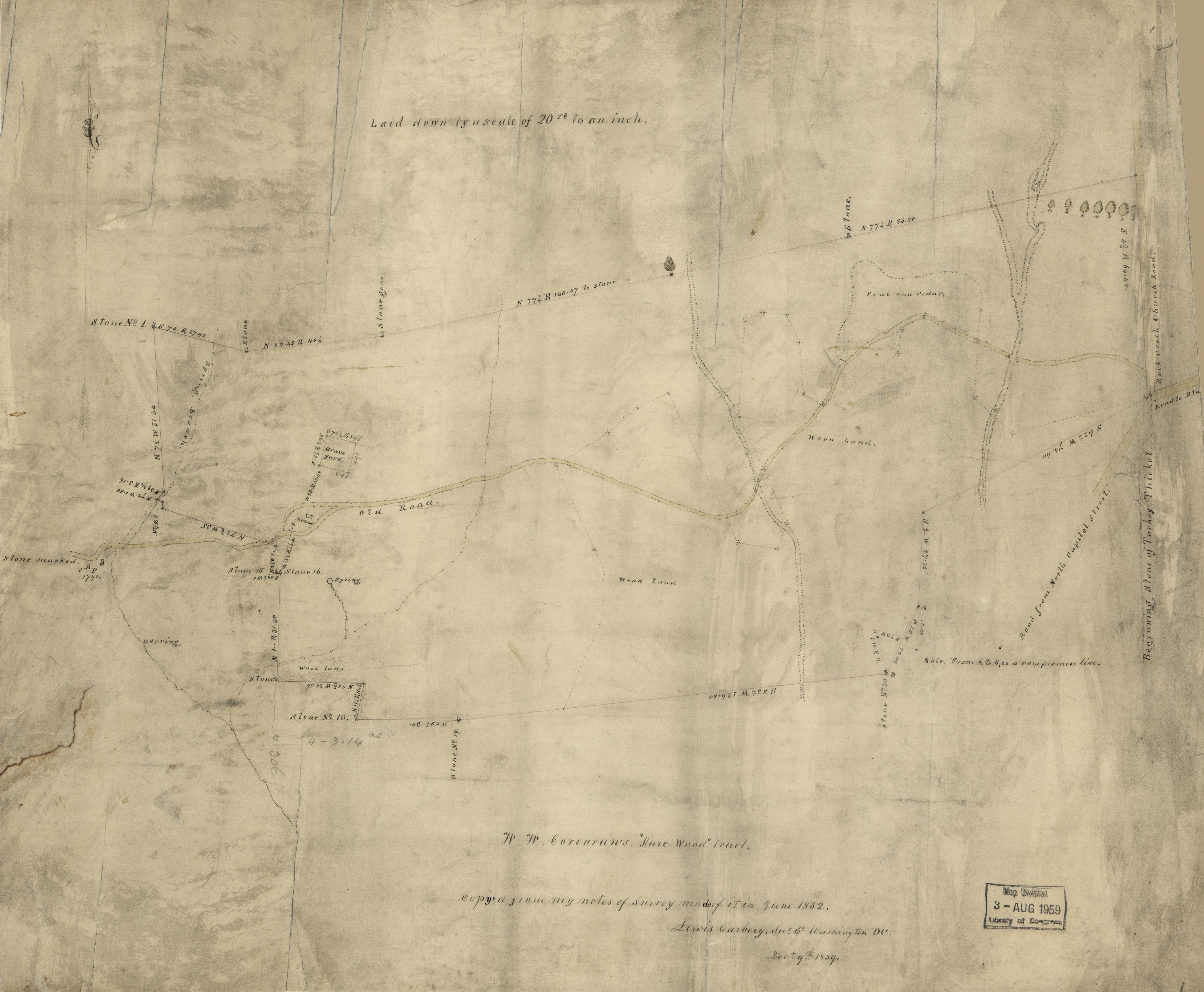 Cadastral survey map. Pen-and-ink and yellow tint. Soiled, torn, and mounted on cloth backing. On verso on cloth backing in lead pencil: No. 14/Corcorans Map, "Harewood Tract" R-P-22. Available also through the Library of Congress Web site as a raster image. Vault DCP